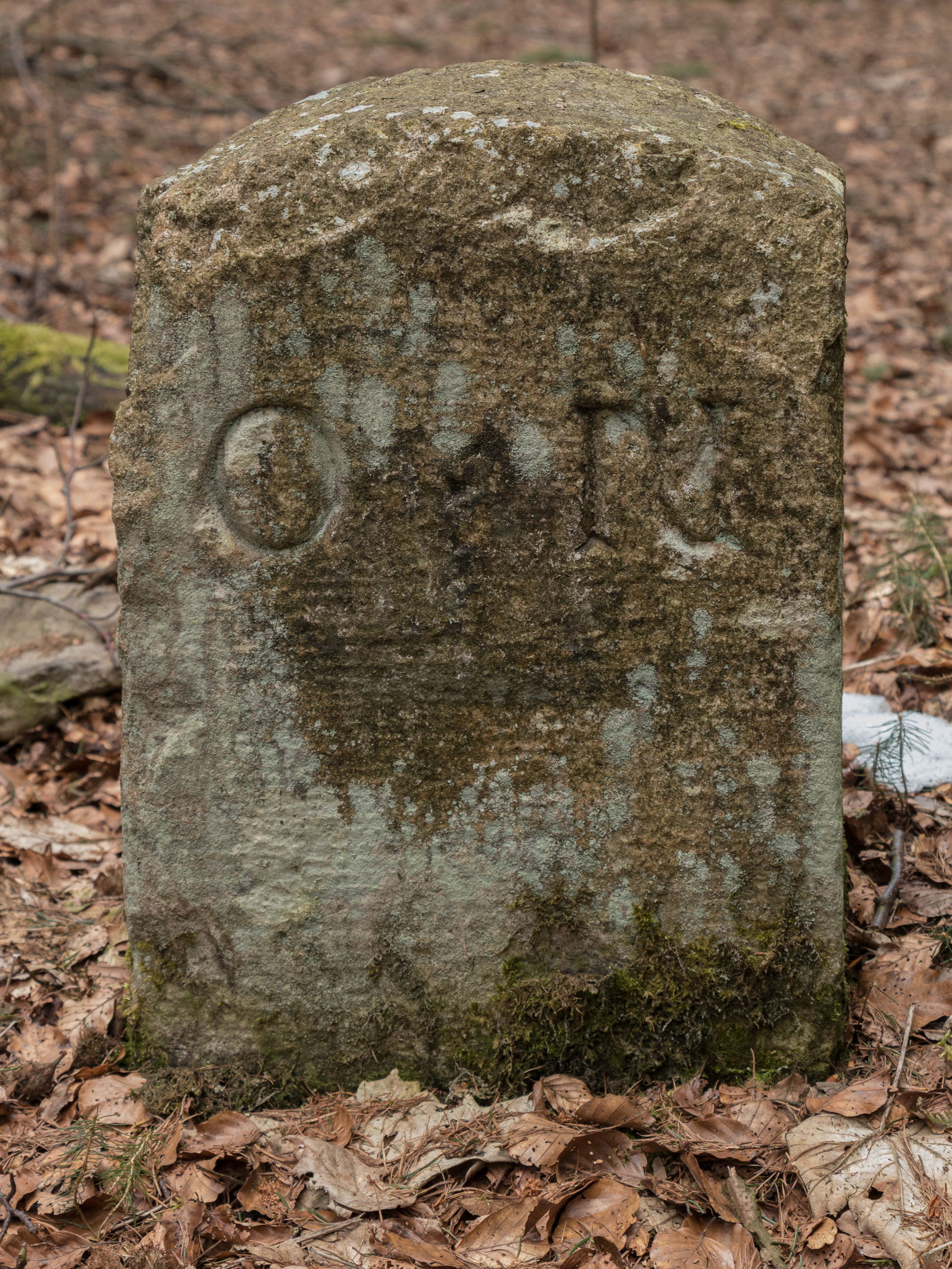 Boundary stone, ON for Oranien-Nassau) and SH for Sayn-Hachenburg near the Großer Wolfstein